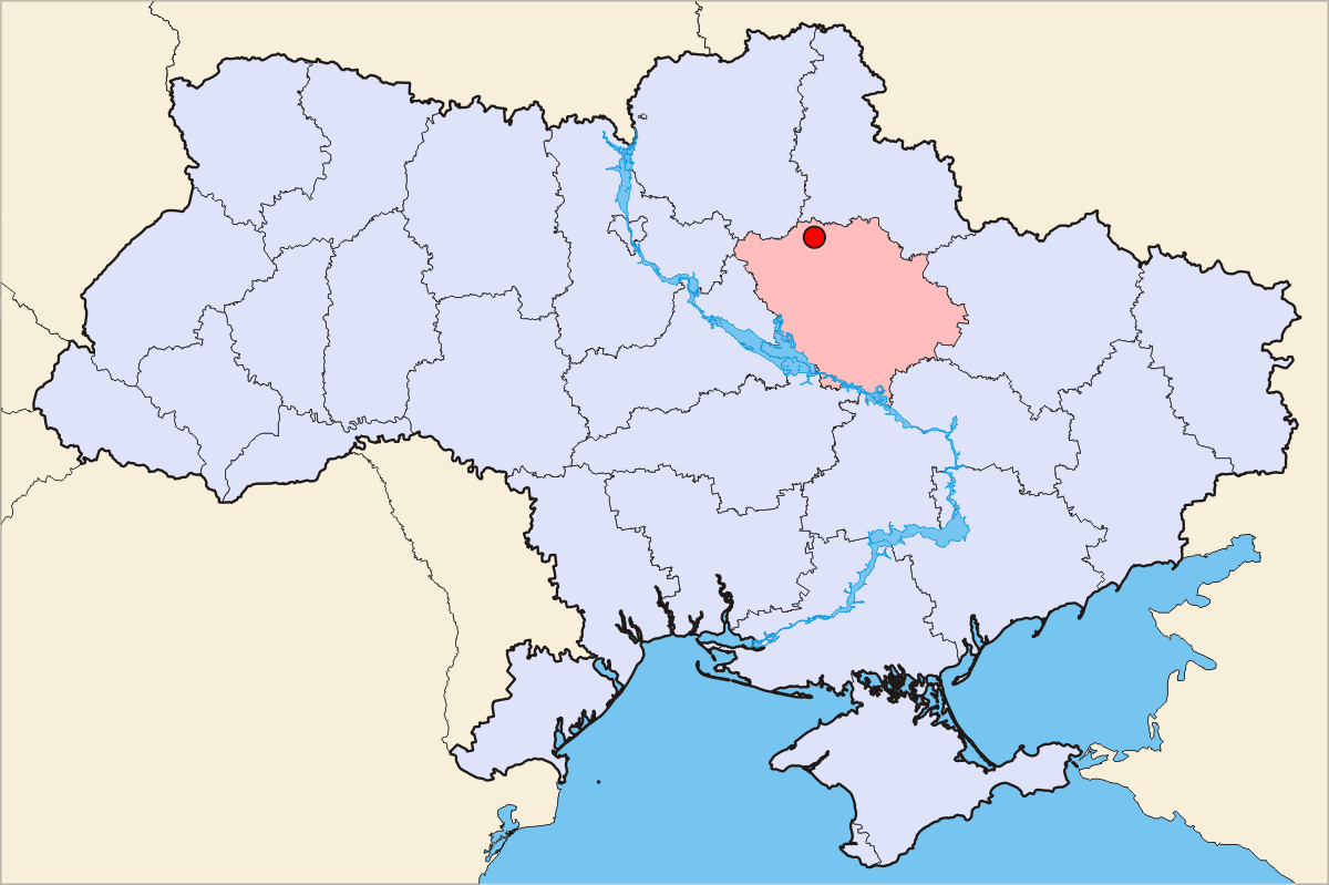 Description = Lokhvytsa geographical position Source = own work, Skluesener Date = 21.01.2006 Author = Skluesener Credits = Colours chosen according to a map of steschke